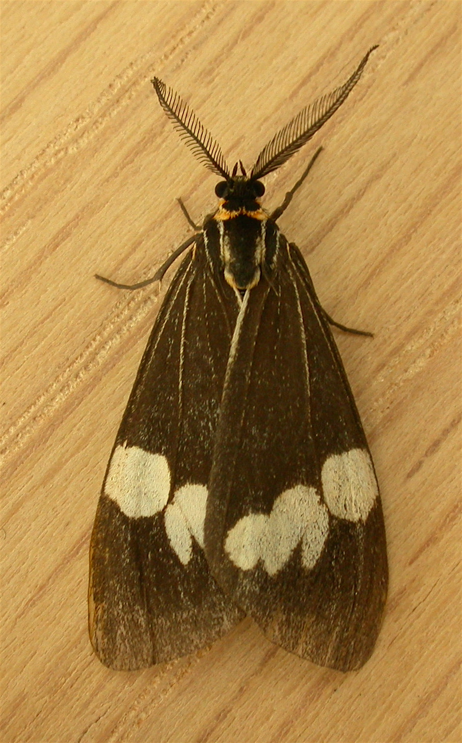 Nyctemera amicus (White, 1841), to MV light, Aranda, ACT, 16/17 September 2008